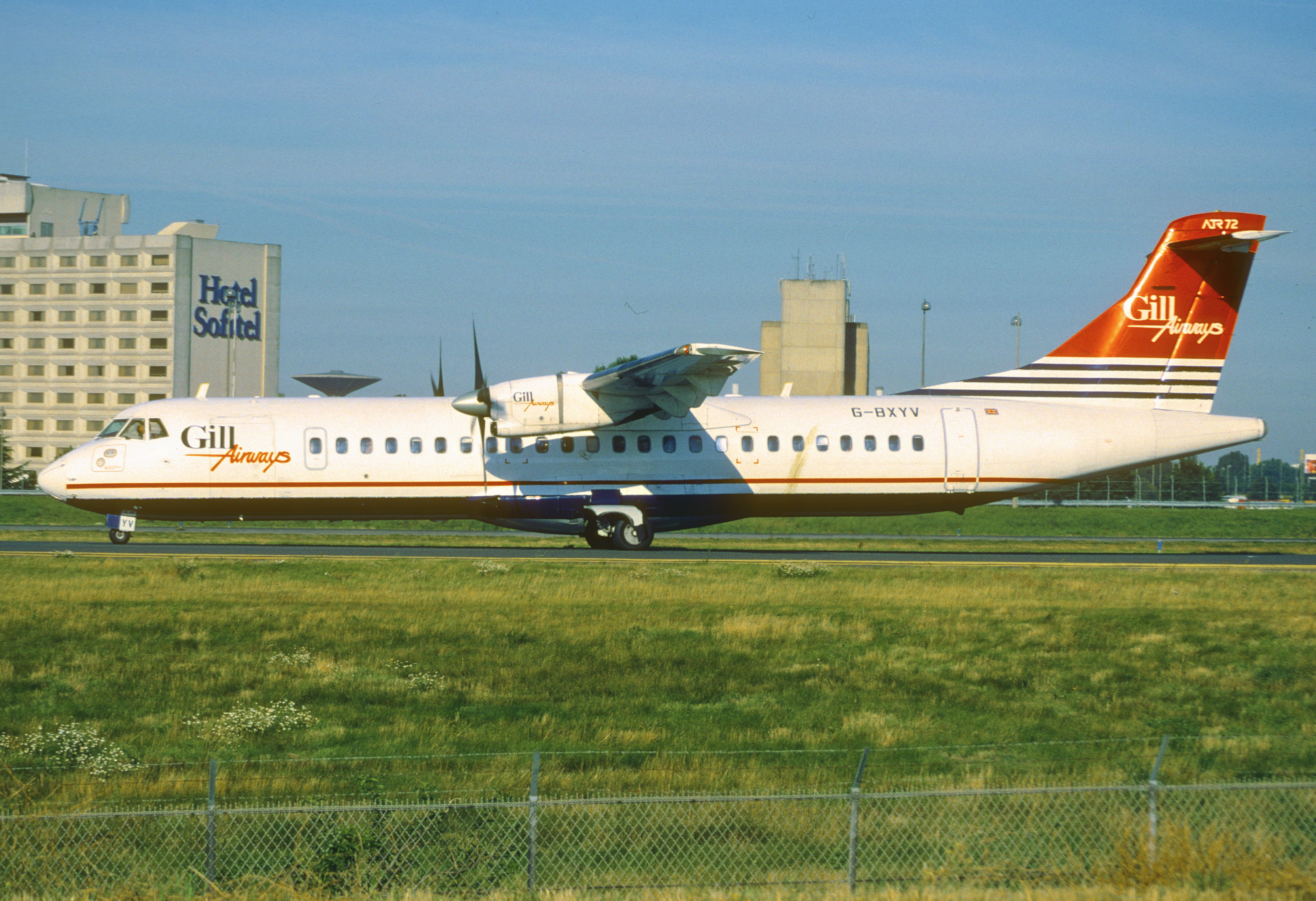 145cq - Gill Airways ATR 72-202; G-BXYV@CDG;11.08.2001